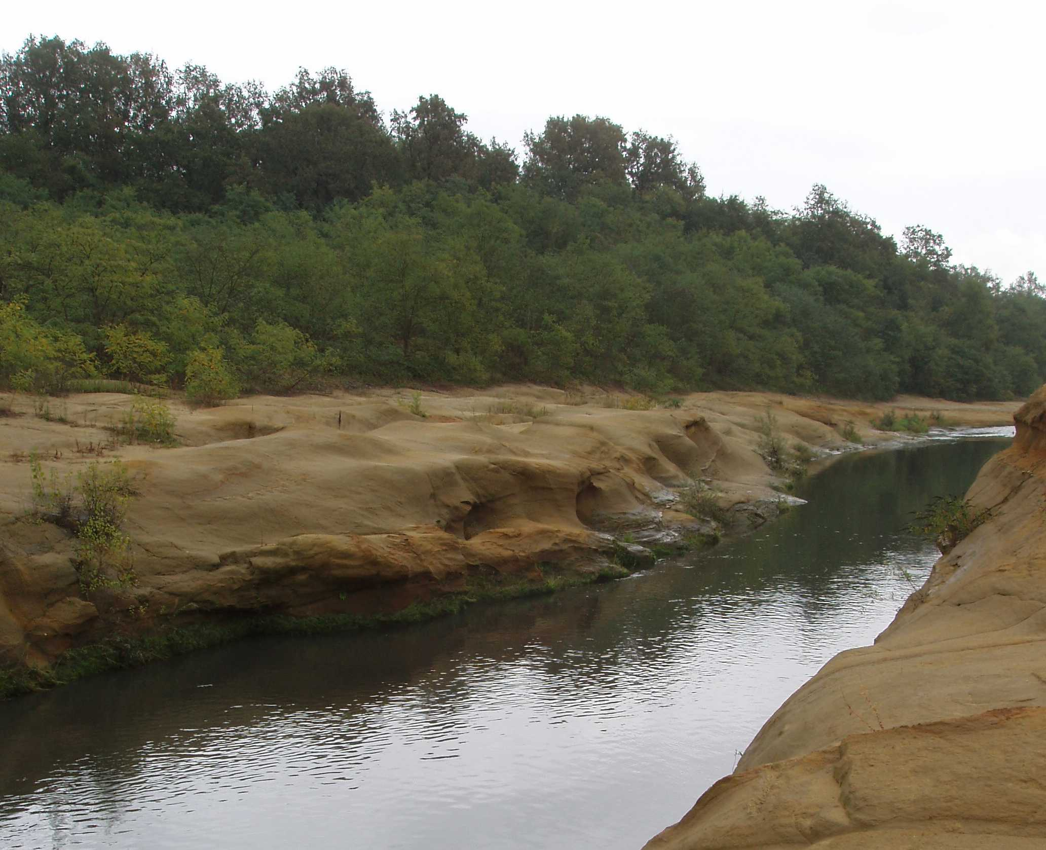 Sand canyon (Cossato, BI, Italy)